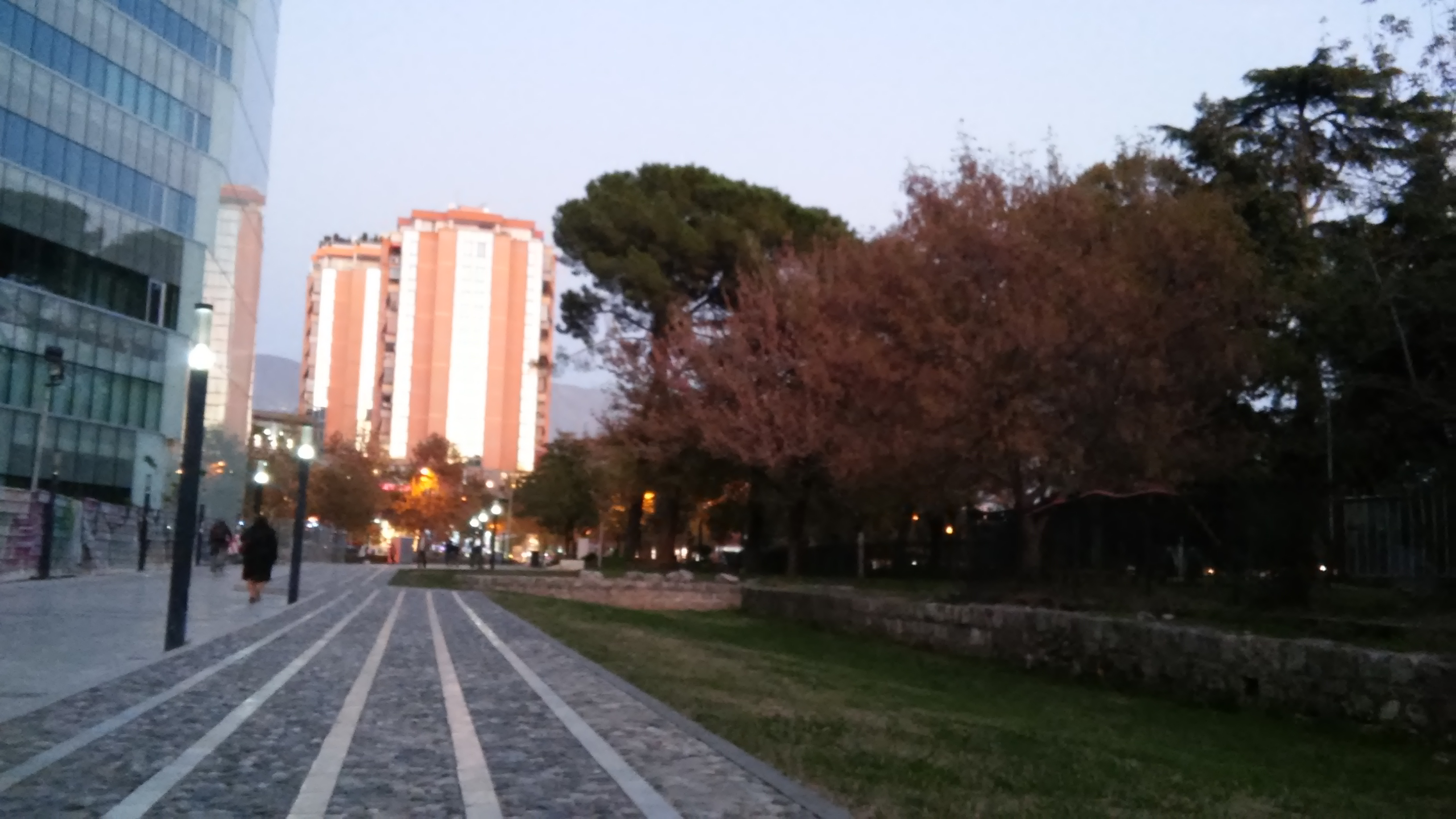 This is a view captured at 'Pedonalja' in Tirana. In english is called 'Pedestrian Street'. It is located between the 'Experimental Theatre', 'Spahi Vogli Theatre' by one side and 'Gallery of Arts', cinema 'Millennium' at the other side. In different parts of the year, are hold many fair with traditionals products and a variety of activities.